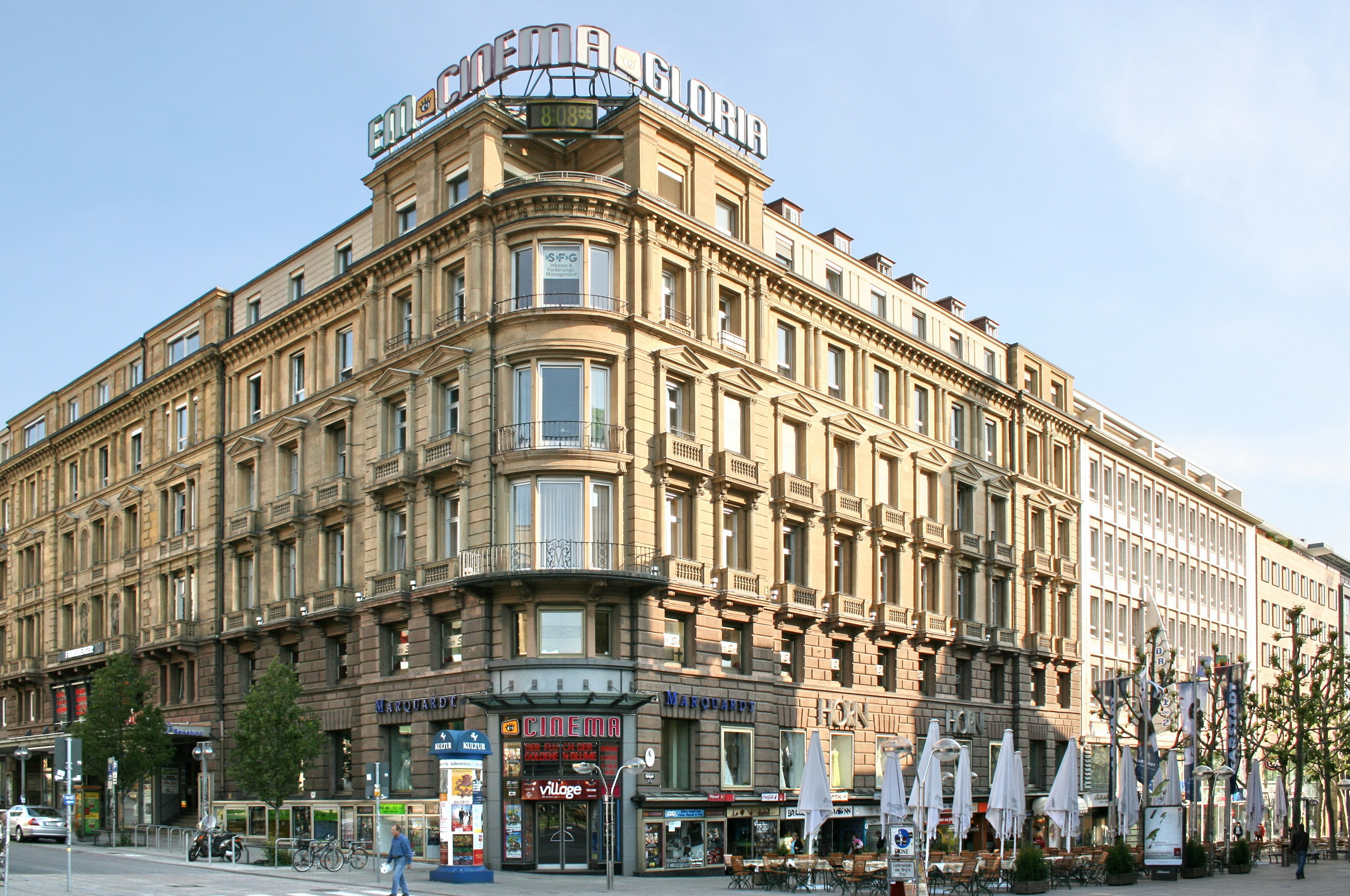 Marquardtbau on Königstraße in Stuttgart, Germany